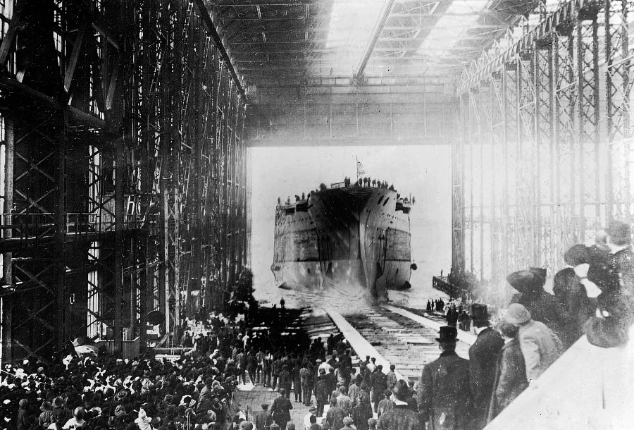 Bain News Service,, publisher. Launch of USS Oklahoma on March 23, 1914 [between ca. 1910 and ca. 1915] 1 negative : glass ; 5 x 7 in. or smaller. Notes: Title from unverified data provided by the Bain News Service on the negatives or caption cards. Forms part of: George Grantham Bain Collection (Library of Congress). Format: Glass negatives. Repository: Library of Congress, Prints and Photographs Division, Washington, D.C. 20540 USA, General information about the Bain Collection is available at Persistent URL: Call Number: LC-B2- 3015-1